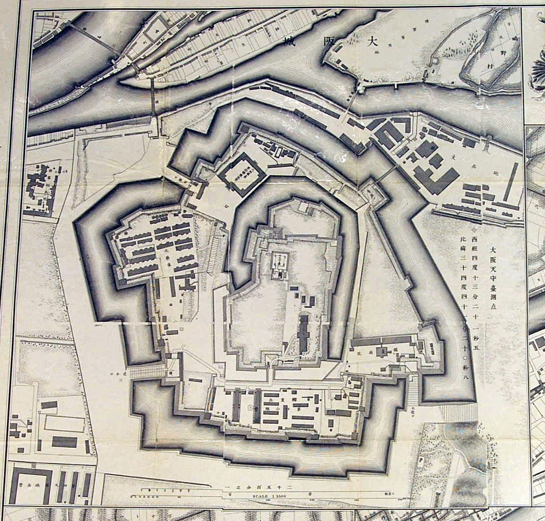 Map of Osaka Castle, around 1887. published by Interior Ministry of Japan